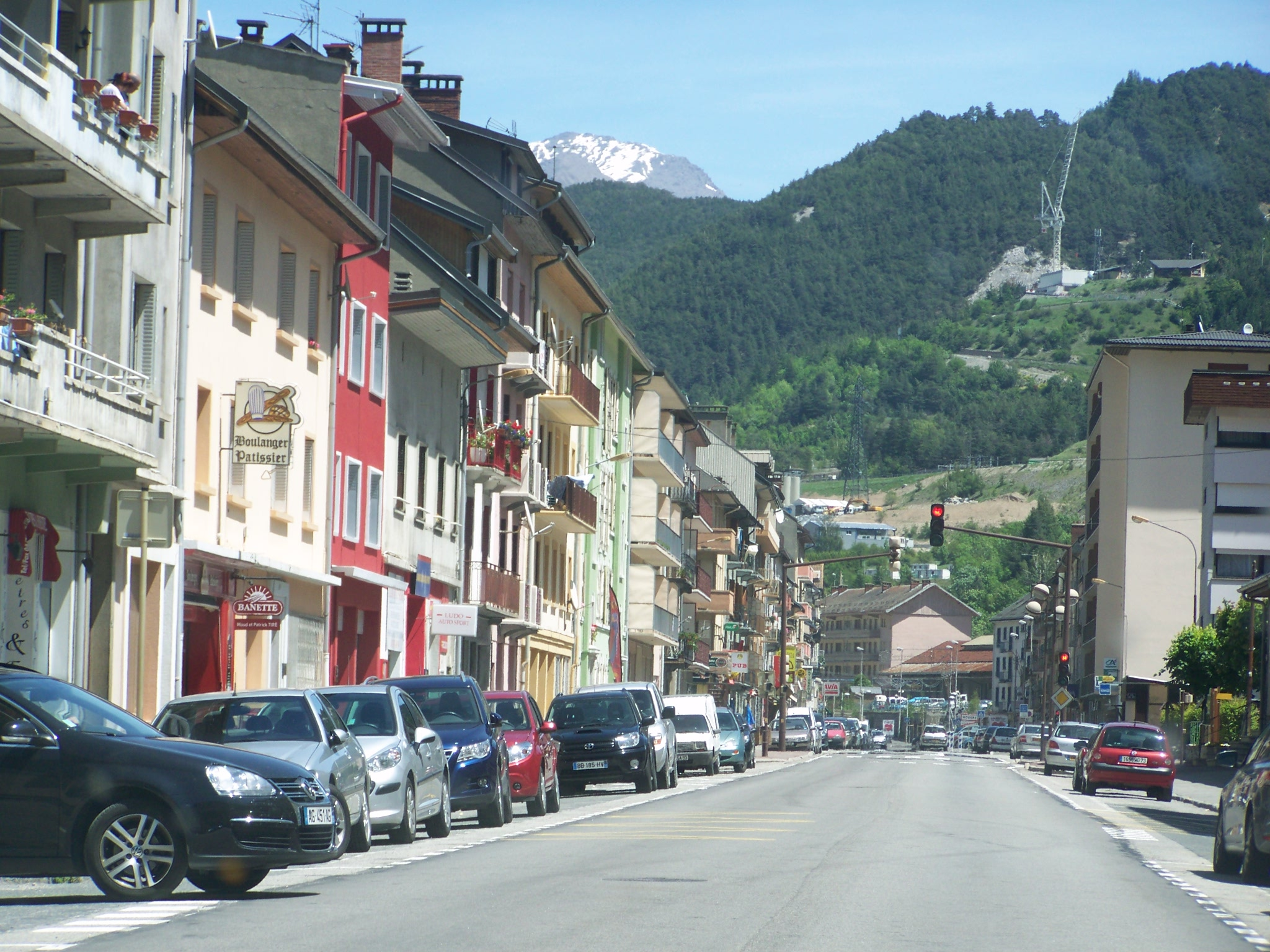 Sight on French town of Fourneaux in Savoie, close to the Italian border.